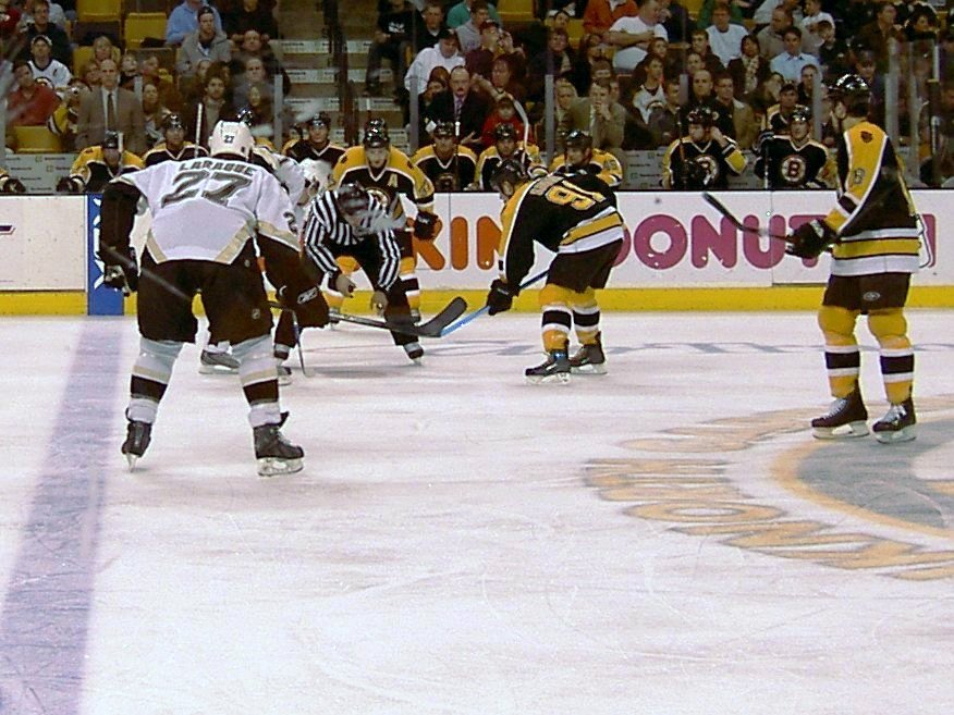 Boston Bruins vs. The Pittsburgh Penguins', NHL 2006/07 @ Boston TD Banknorth Garden, March 29, 2007. Mark Savard at Face off